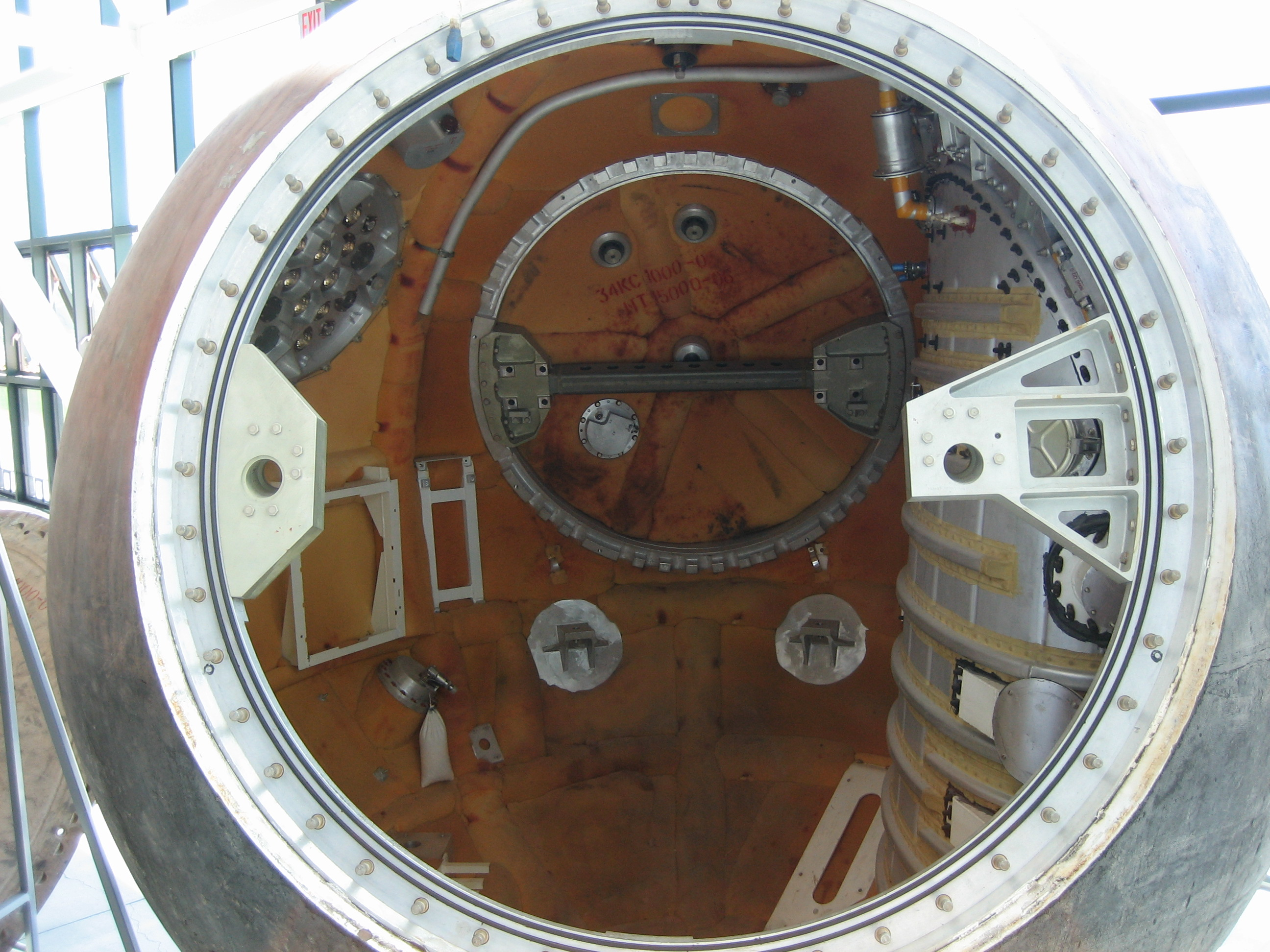 The Foton 6 was launched by a Soyuz rocket from the Plesetsk Cosmodrome in Russia on April 11, 1990. It remained in Earth orbit for 15 days and landed in Kazakhstan. It is seen here at the Evergreen Aviation & Space Museum in McMinnville, Oregon, USA.